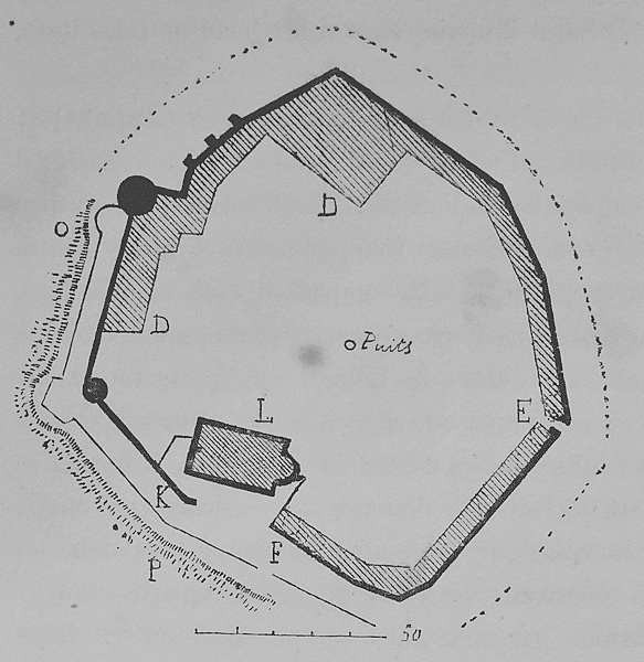 Castle of Noaillan (Gironde, France)